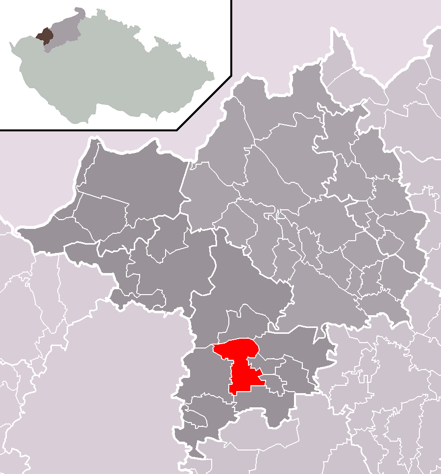 Location of Vilémov municipality within Chomutov District and administrative area of Kadaň as a Municipality with Extended Competence.